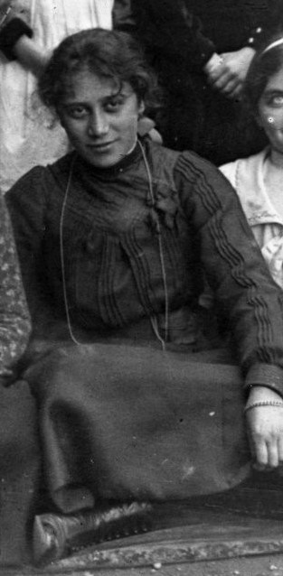 Martha Grace aka Maata Mahupuku c. 1901 detail from a photograph taken of Miss Swanson's girls,Thorndon, Wellington